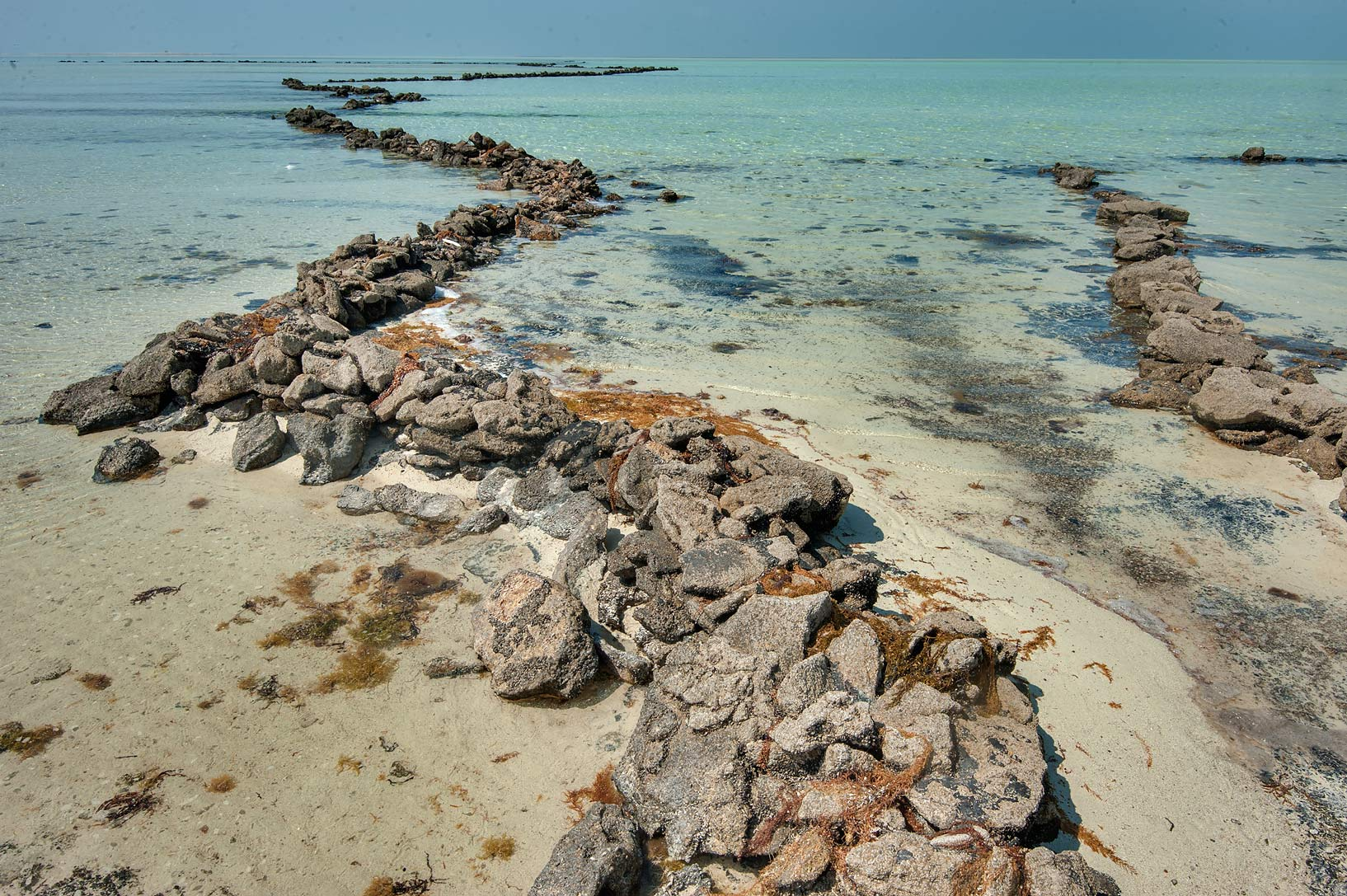 Intertidal stone fish traps at Freiha in northern Qatar.